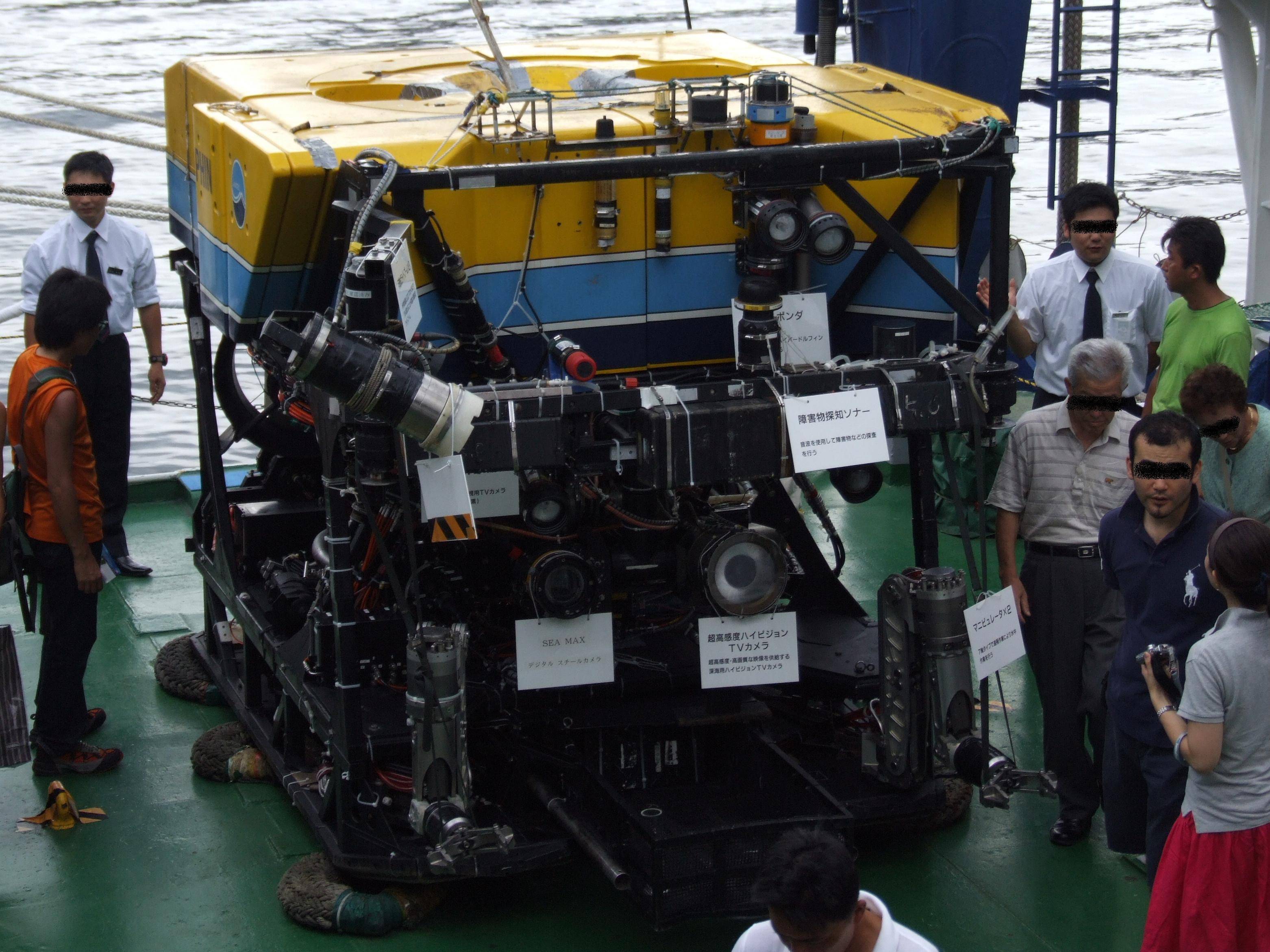 Hyper-Dolphin ROV on its mothership Natsushima